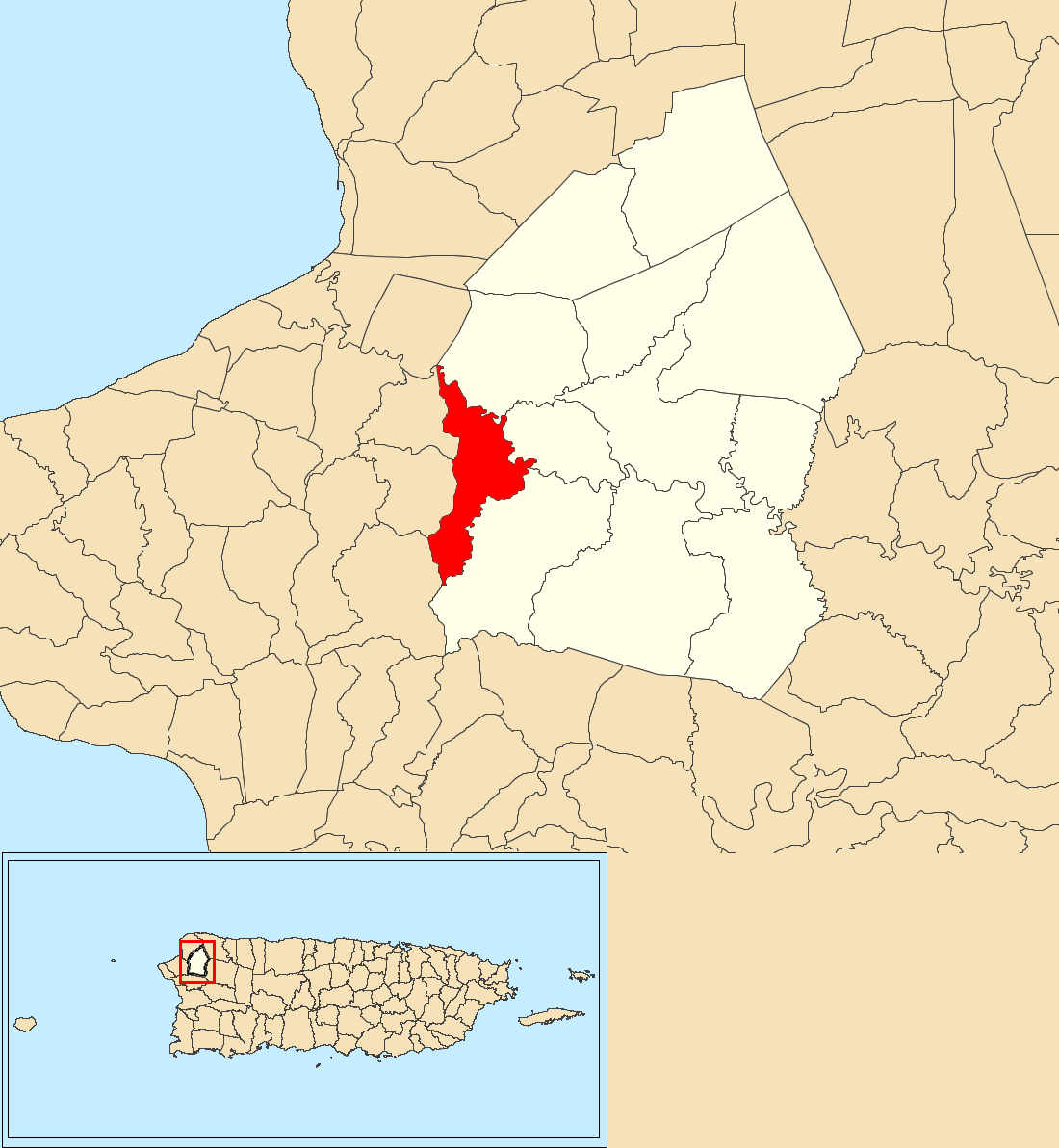 Marías, Moca, Puerto Rico locator map